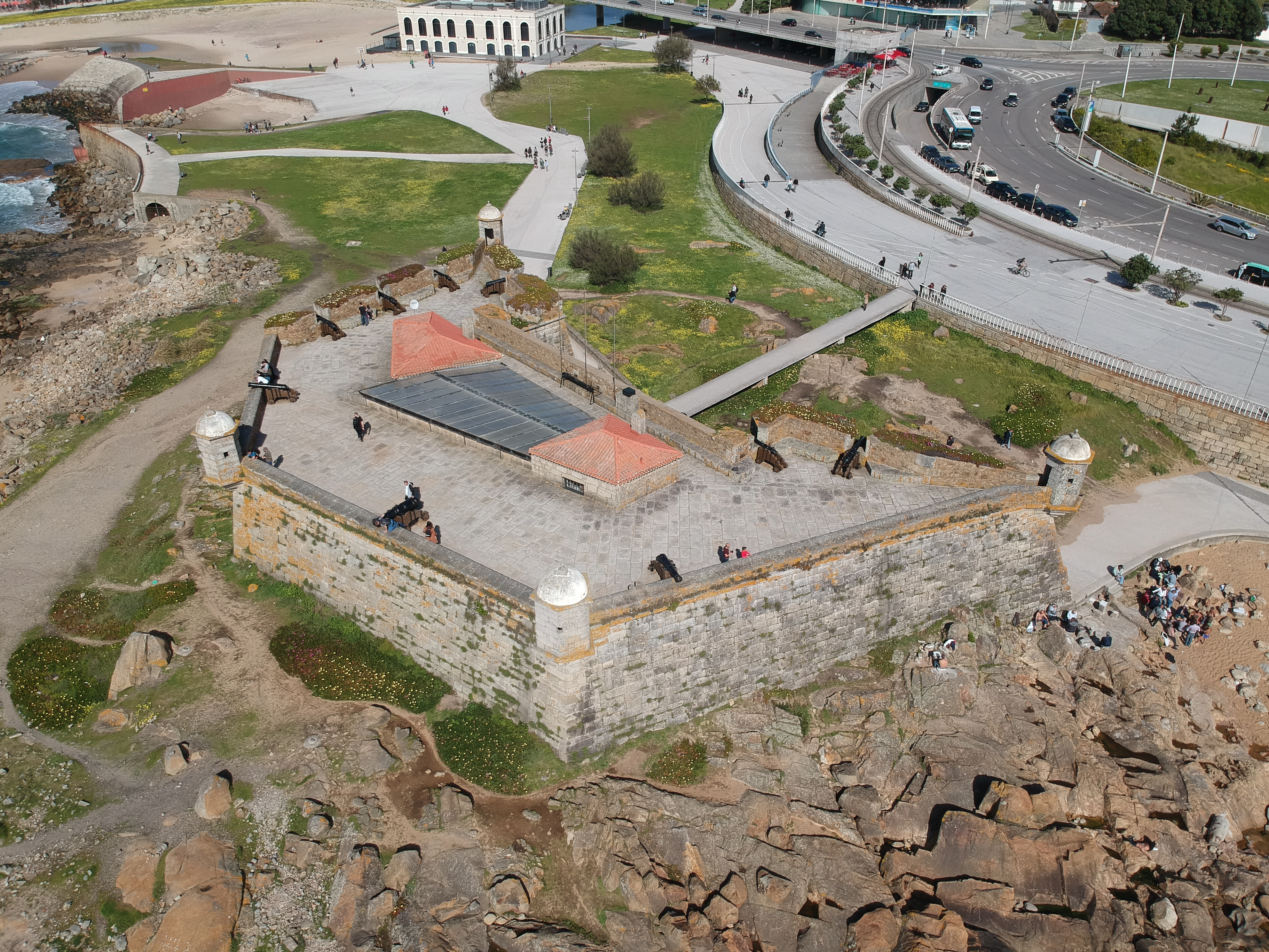 Aerial photograph of Castelo do Queijo in Porto, Portugal